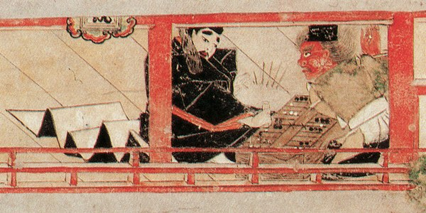 Haseo-zōshi ("Handscrolls of Ki Haseo")